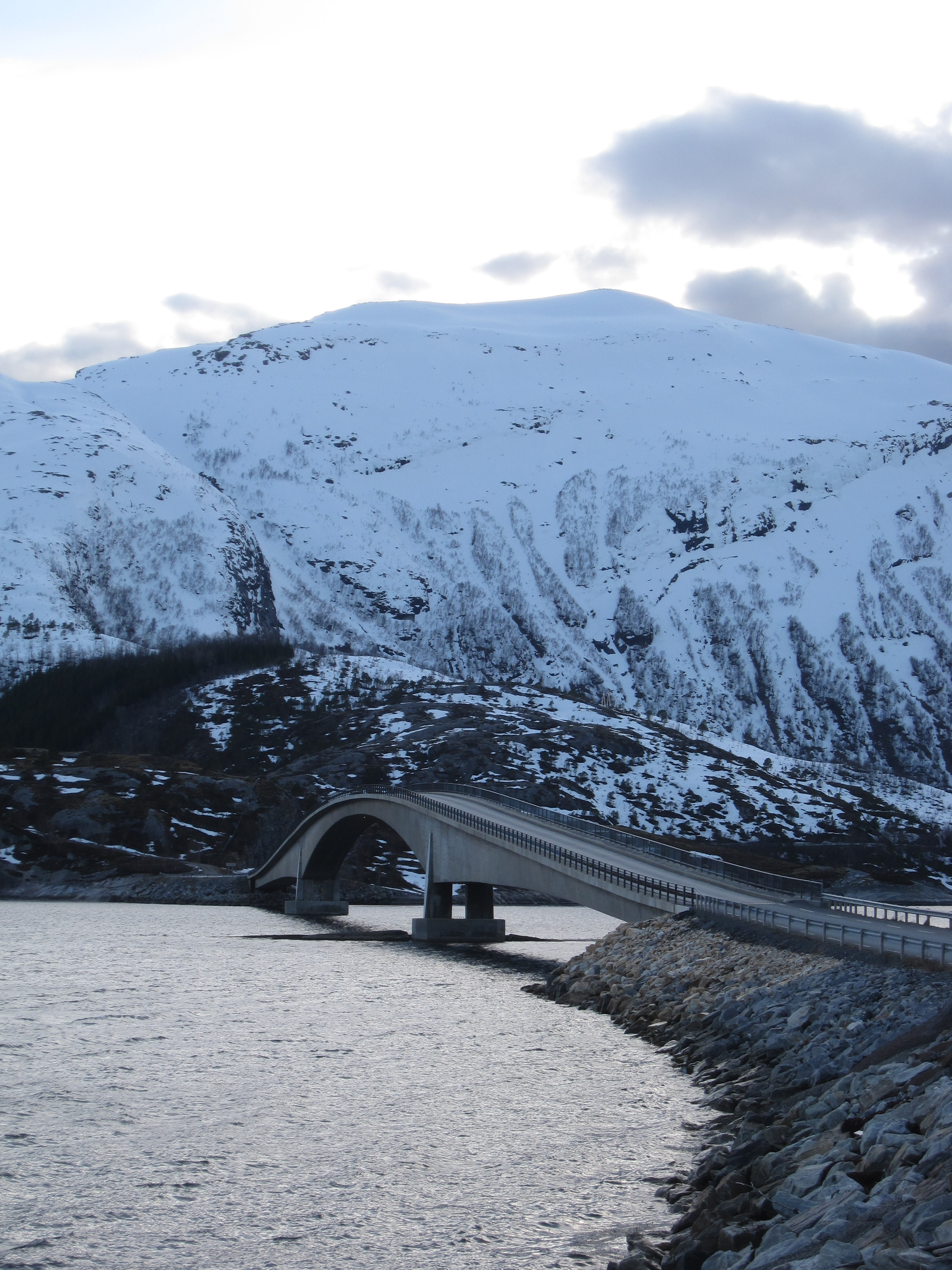 Picture of Sandhornøy bridge as seen from Kjøpstad.